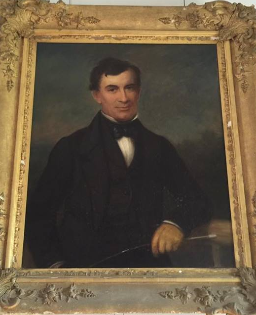 Portrait by Charles Bird King, photograph by R Tayloe Cook VII